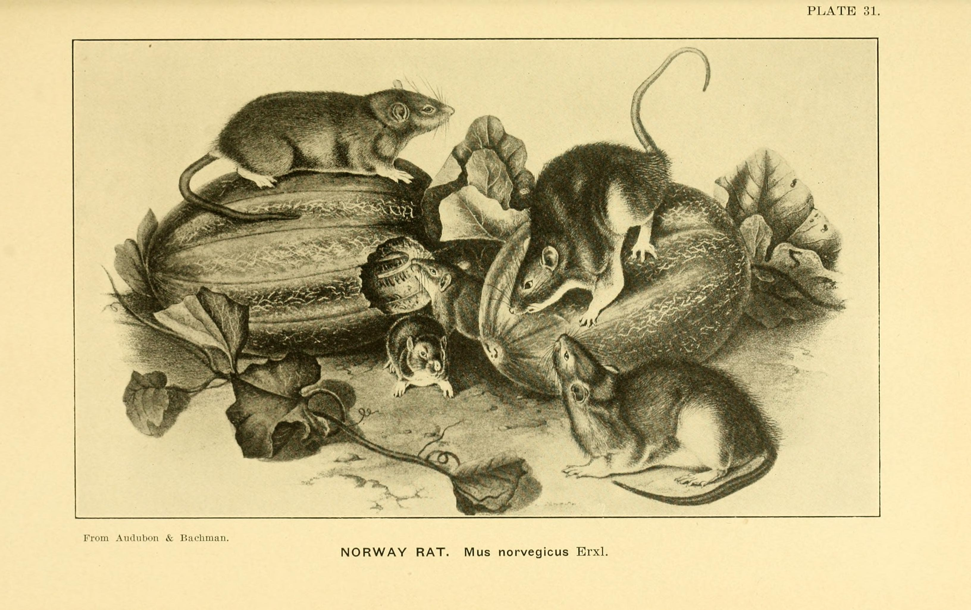 Title: Annual report of the New Jersey State Museum Identifier: annualreportofne1907newj Year: 1907 (1900s) Authors: New Jersey State Museum Subjects: New Jersey State Museum; Natural history Publisher: Trenton, N. J. : MacCrellish & Quigley Text Appearing Before Image: ' Text Appearing After Image: '